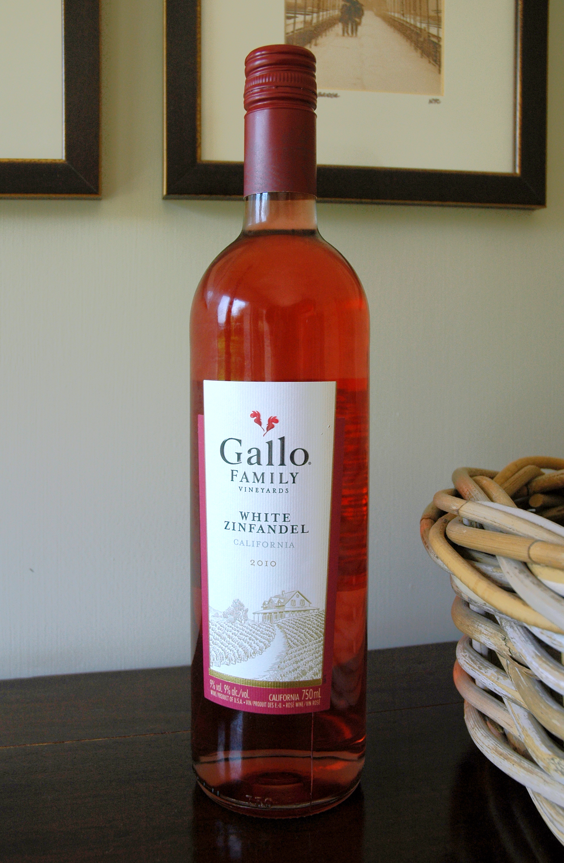 Bottle of a White Zinfandel wine from the Gallo Family Vineyards brand of California, standing on a cupboard.